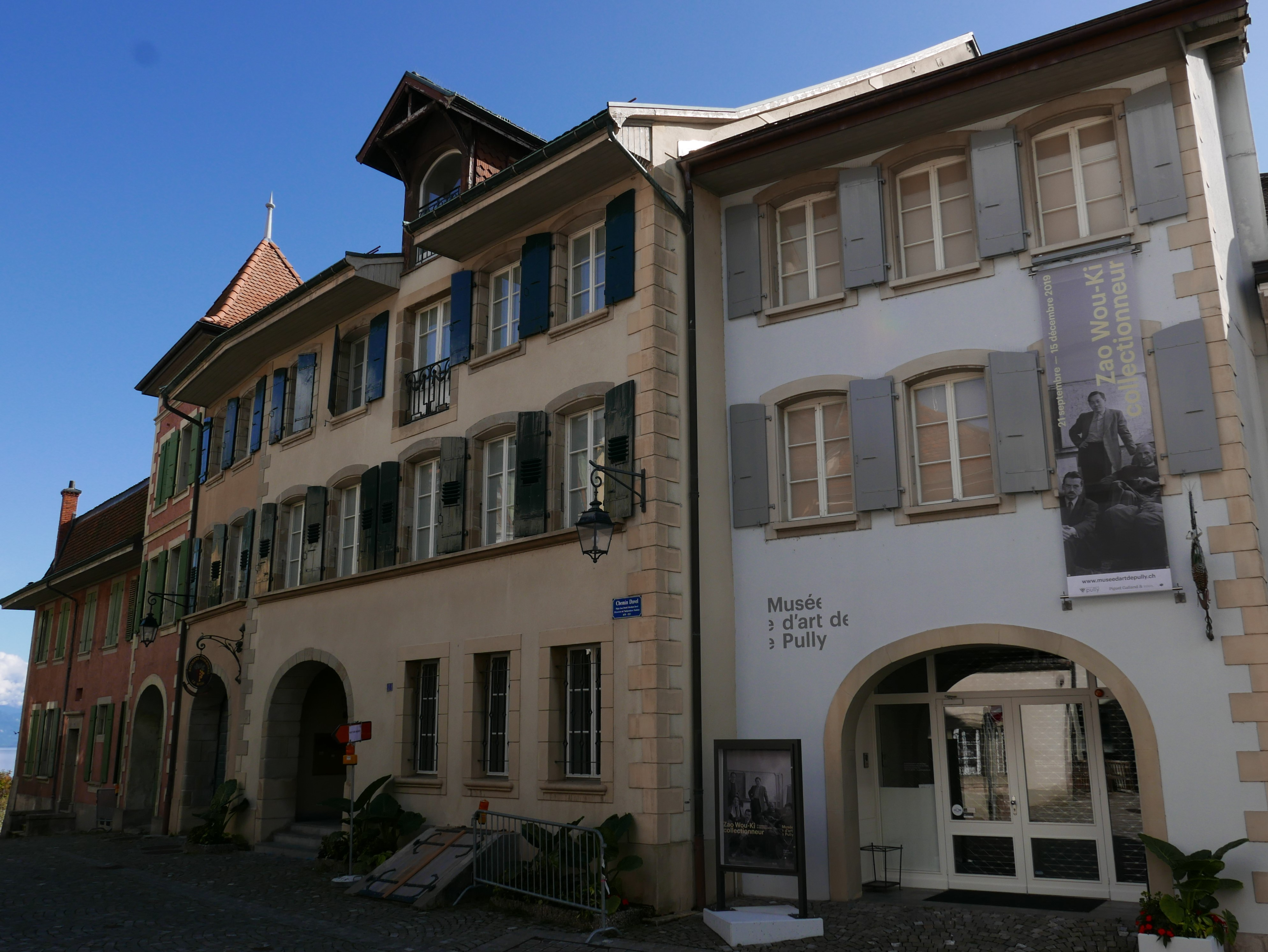 Musée d'art de Pully